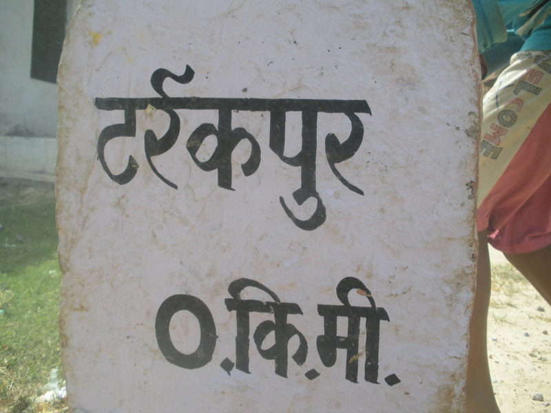 tarrakpur village between nh93 and yamuna expressway, agra